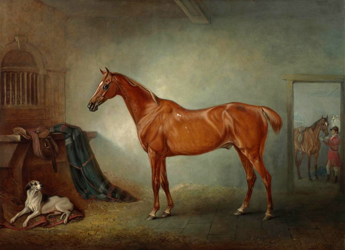 Lord Henry Bentinck's chestnut hunter 'Firebird', and 'Policy', a foxhound,in a loose box, Oil on canvas, Signed, inscribed and dated 1845 113.7 x 156.2 cm, 44 3/4 x 61 1/2 inch